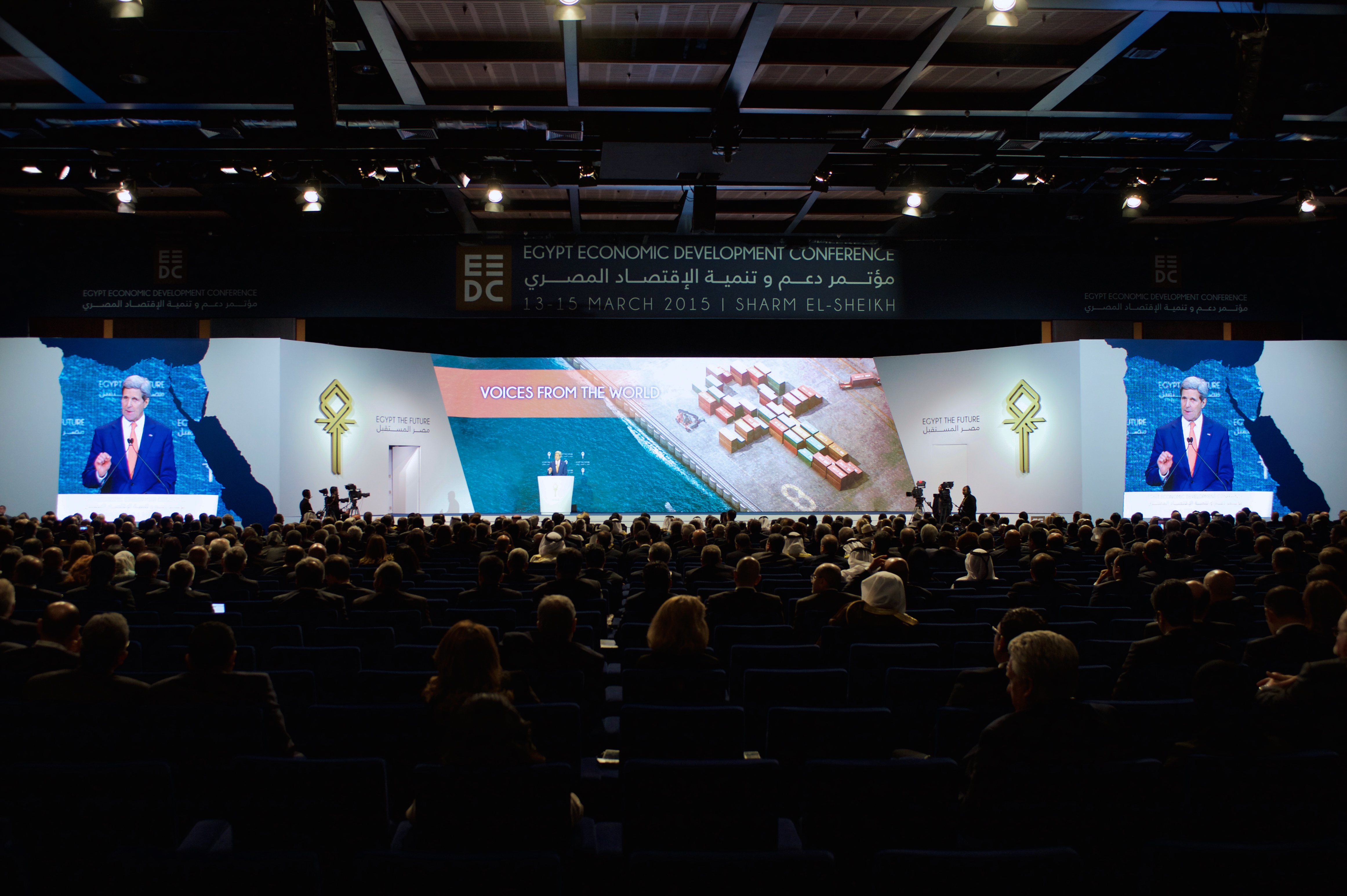 U.S. Secretary of State John Kerry delivers remarks to Egyptian President Abdel Fattah al-Sisi and an international audience of several thousand attending an Egyptian development conference at the Congress Center in Sharm el-Sheikh, Egypt, on March 13, 2015. [State Department photo/ Public Domain]